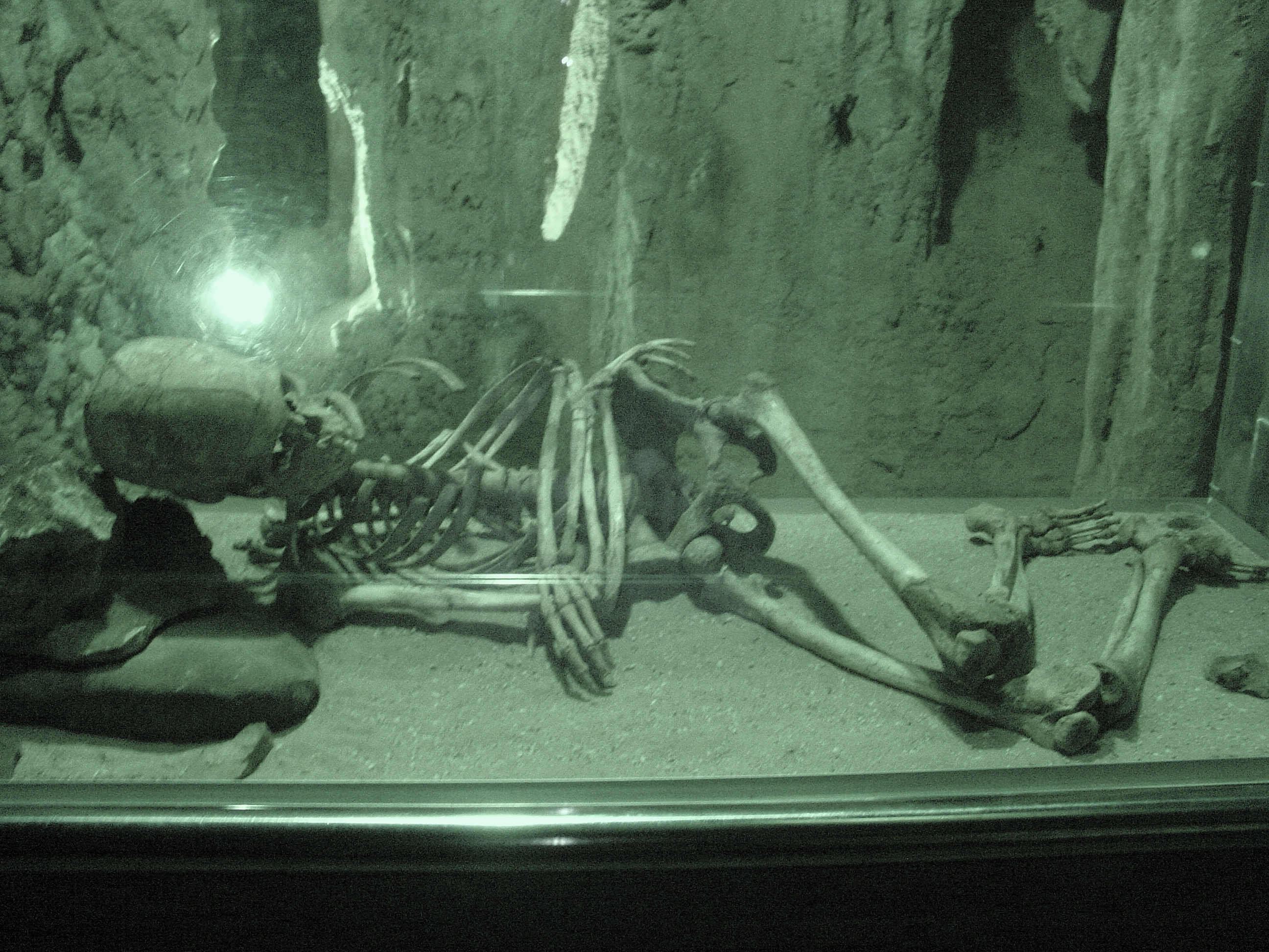 Skeletons of human in Nerja's Cave (Spain).